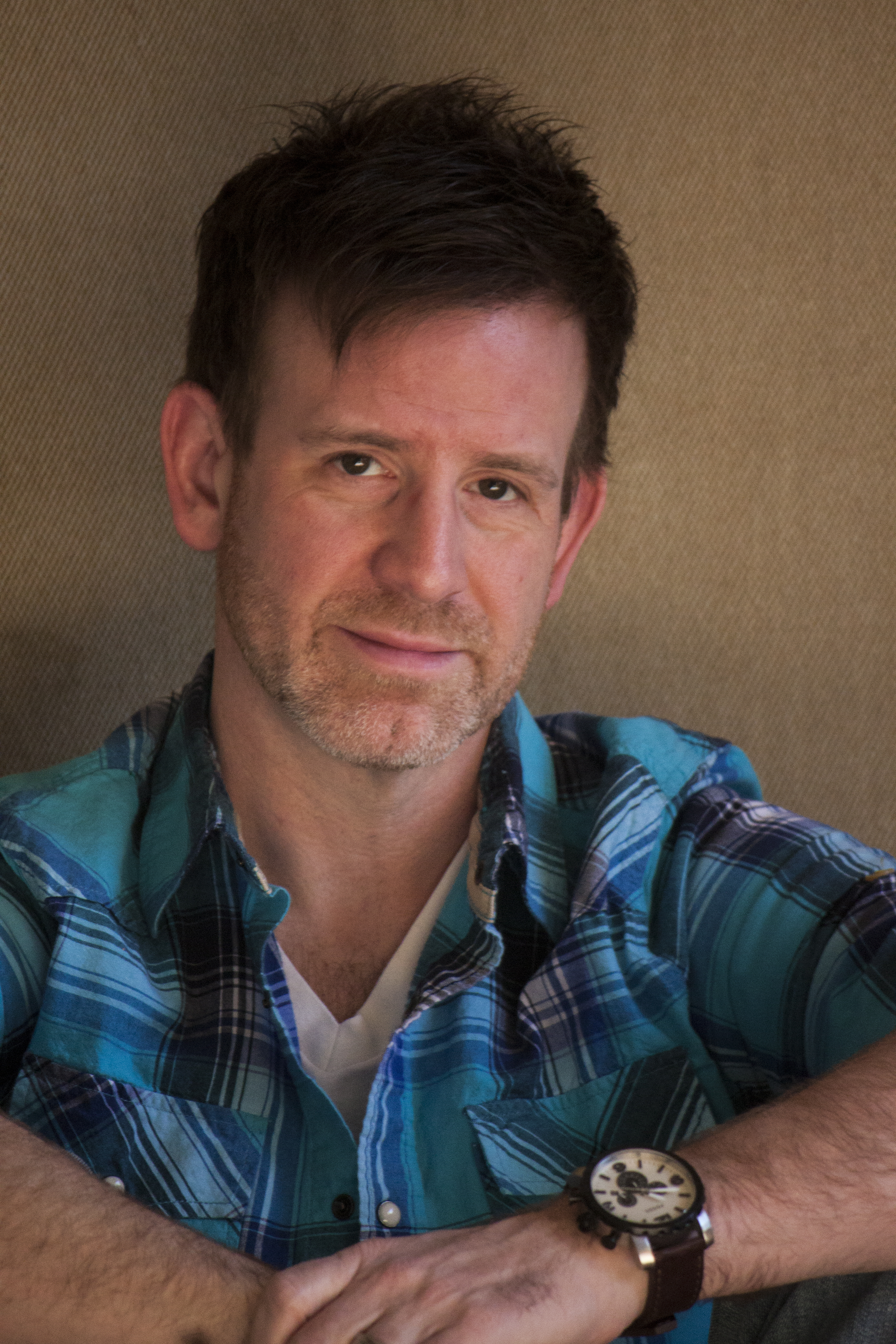 Head shot of writer, director, producer, actor Jason Paul Collum. Image accompanied an article on the entertainer for the April/May 2013 issue of The Advocate magazine.